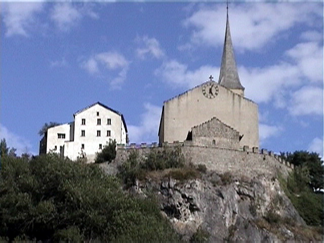 The Old Raron Church where the German poet Rainer Maria Rilke is buried